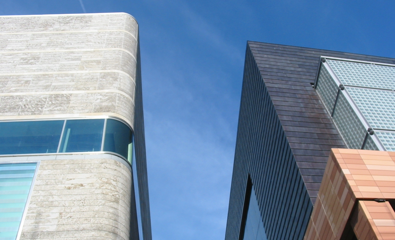 Nrf: Liverpool